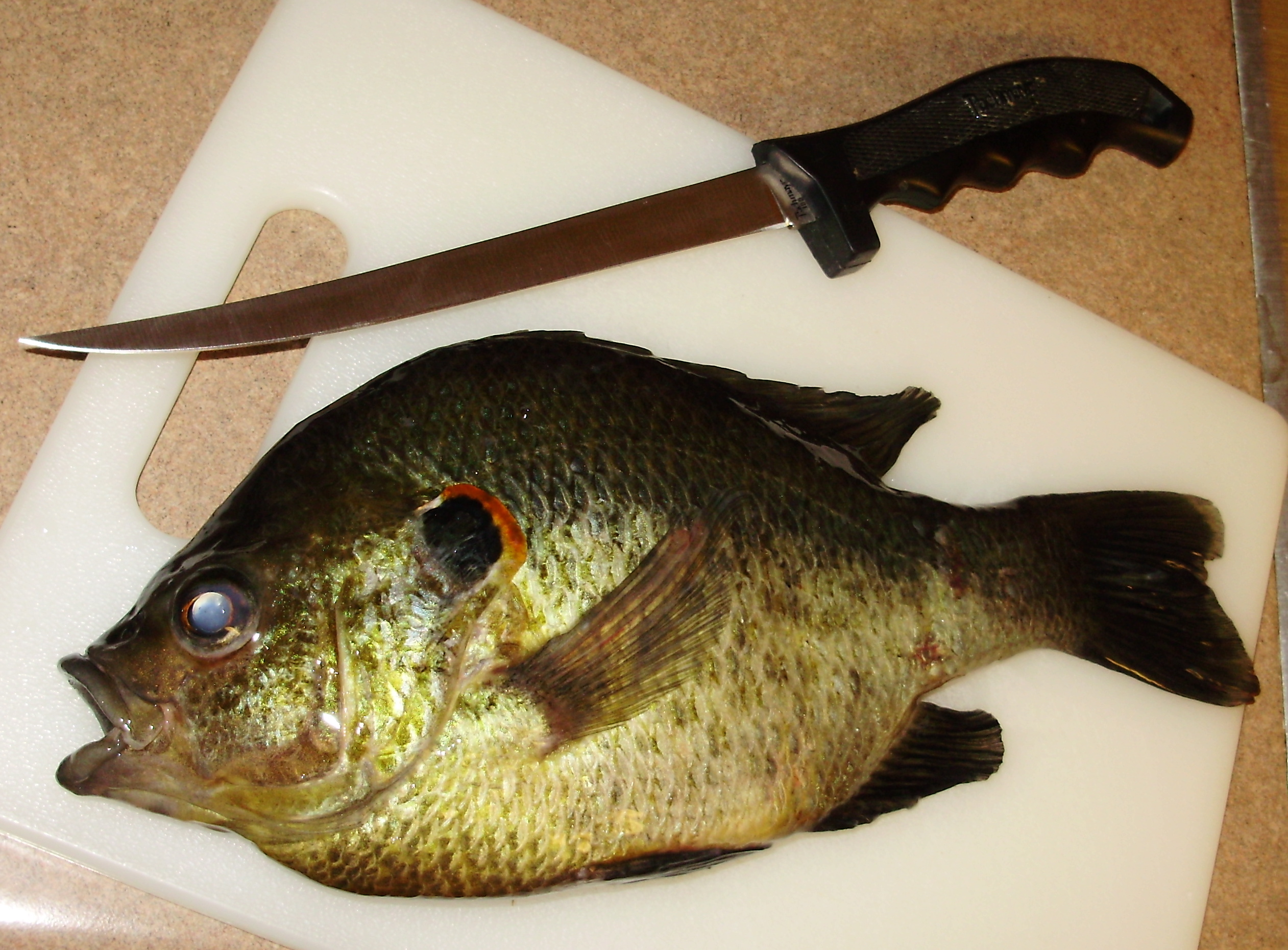 A dead redear sunfish (Lepomis microlophus) on a cutting board in 2008.